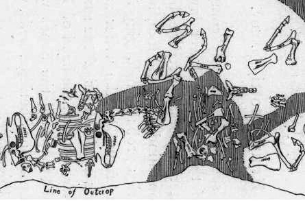 Assemblage of bones, illustrated as discovery in situ, of the Pleistocene horse Equus scotti. From Gidley, James Williams. 1900 “A new species of Pleistocene horse from the Staked Plains of Texas“. Bulletin of the AMNH ; v. 13, article 13.